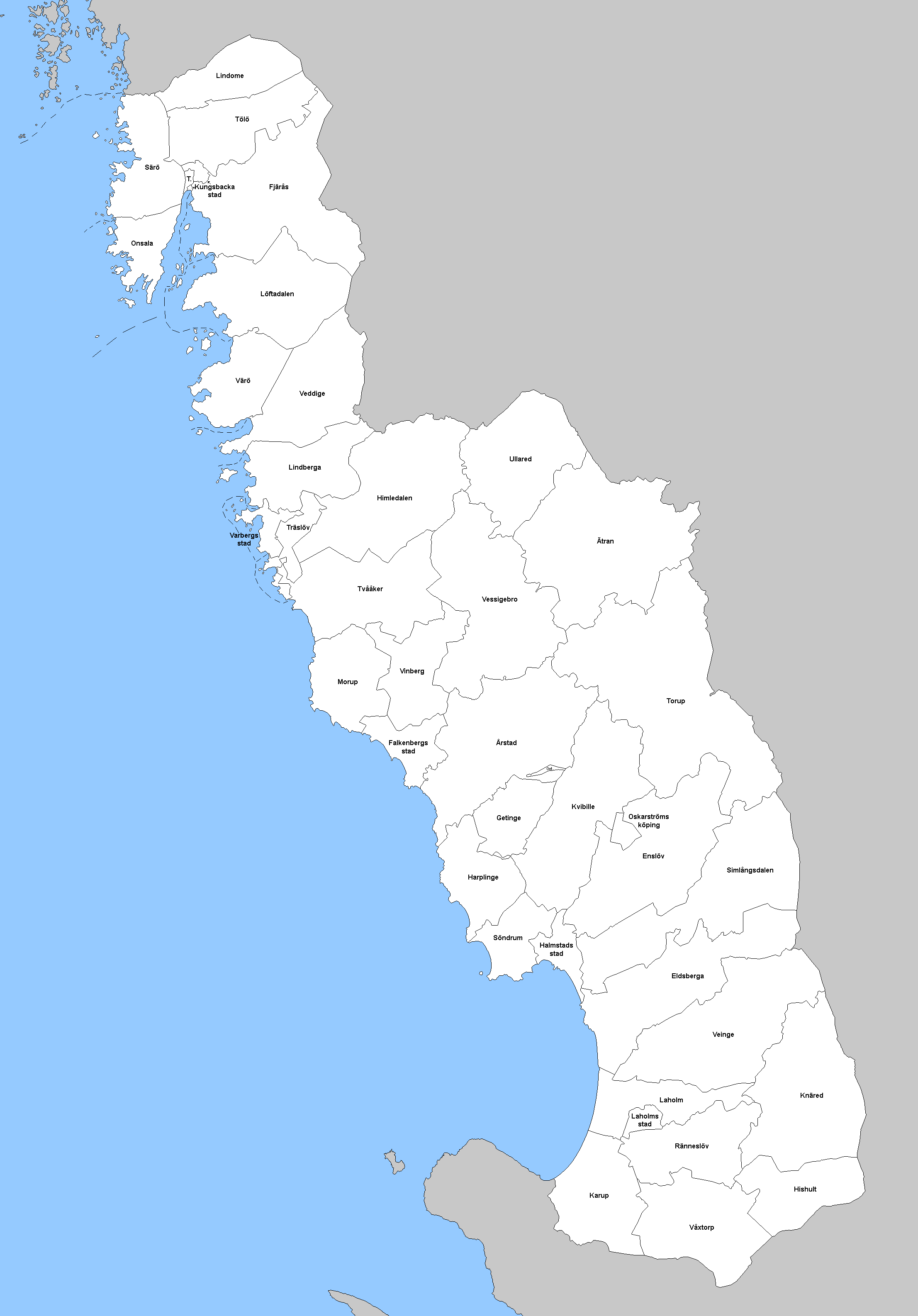 old municipalities in halland, 1952.